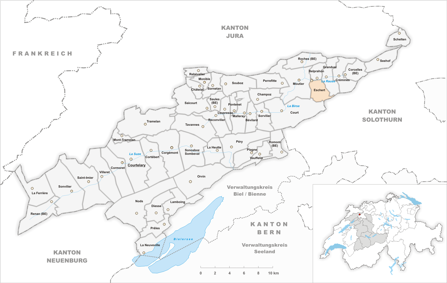 Municipality Eschert